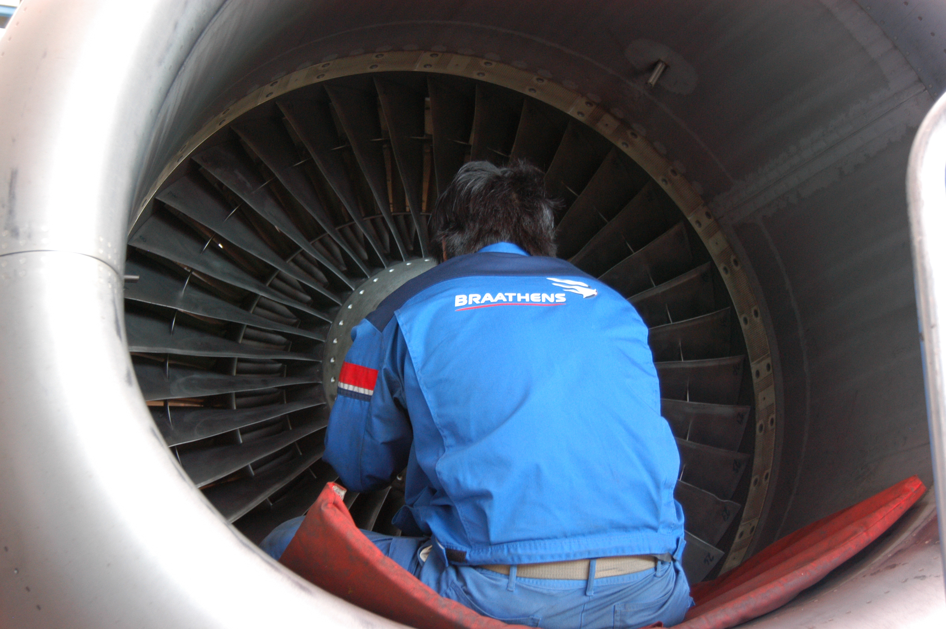 A Braathens Teknik employee inspecting a CFM56 turbofan engine